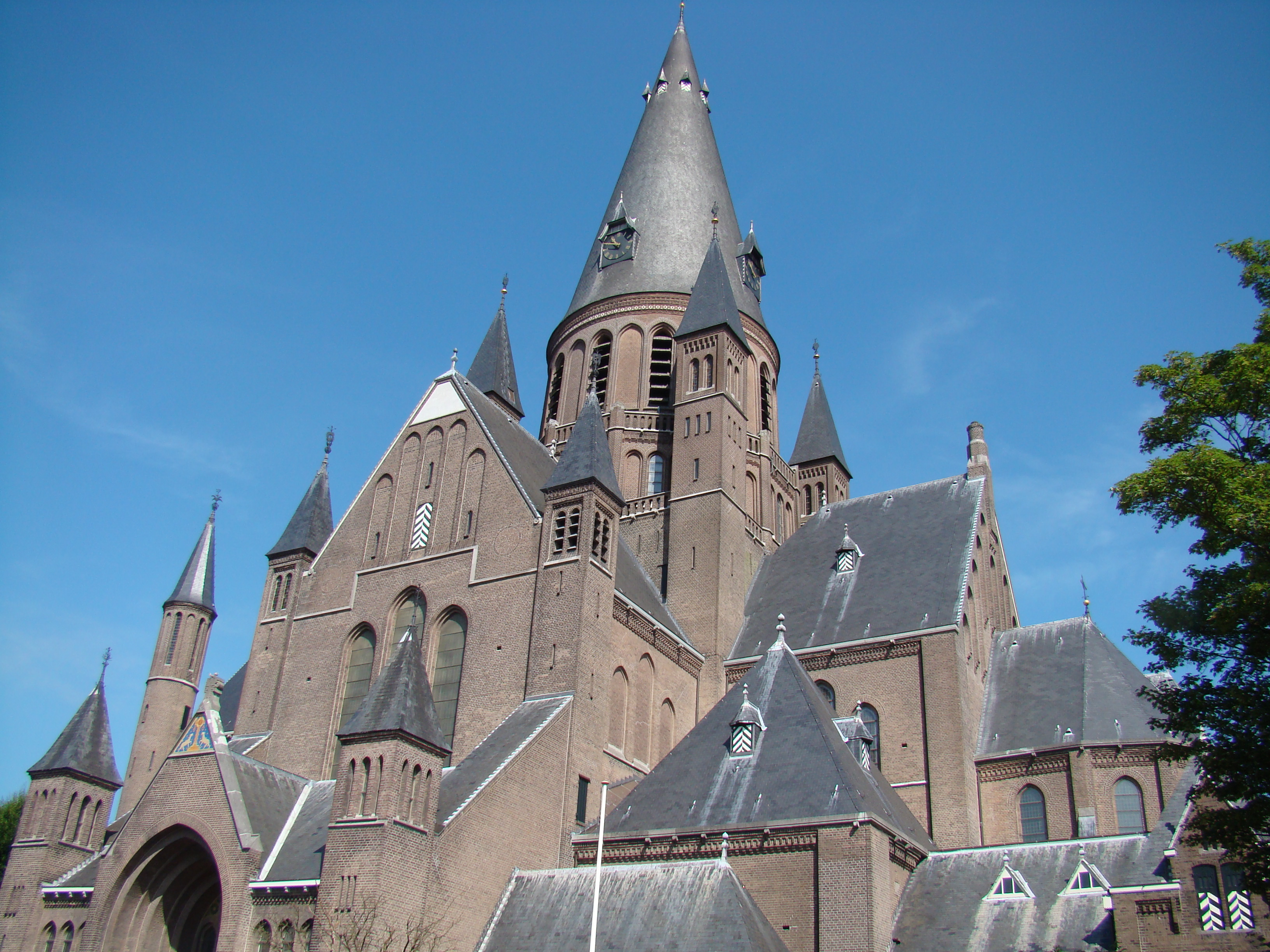 Impressions of Steenbergen, Netherlands